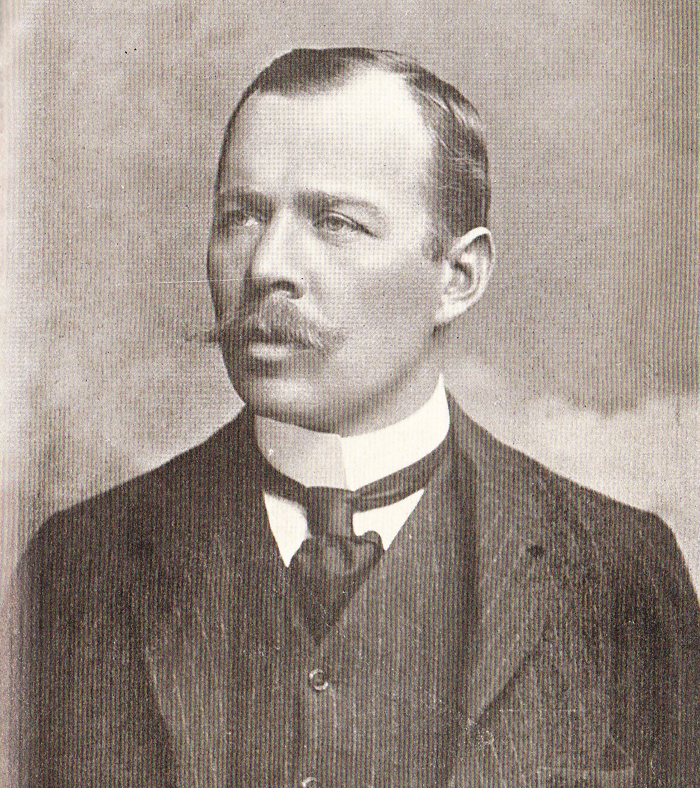 Photograph of Carsten Borchgrevink, Antarctic explorer and leader of the Southern Cross Expedition, 1898–1900